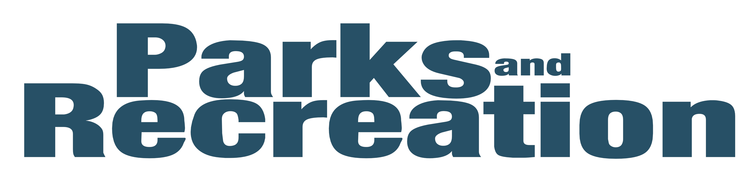 Original logo used for the promotion of the television series Parks And Recreation